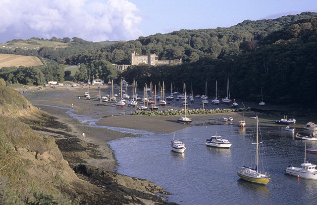 Watermouth Bay and Castle, Devon